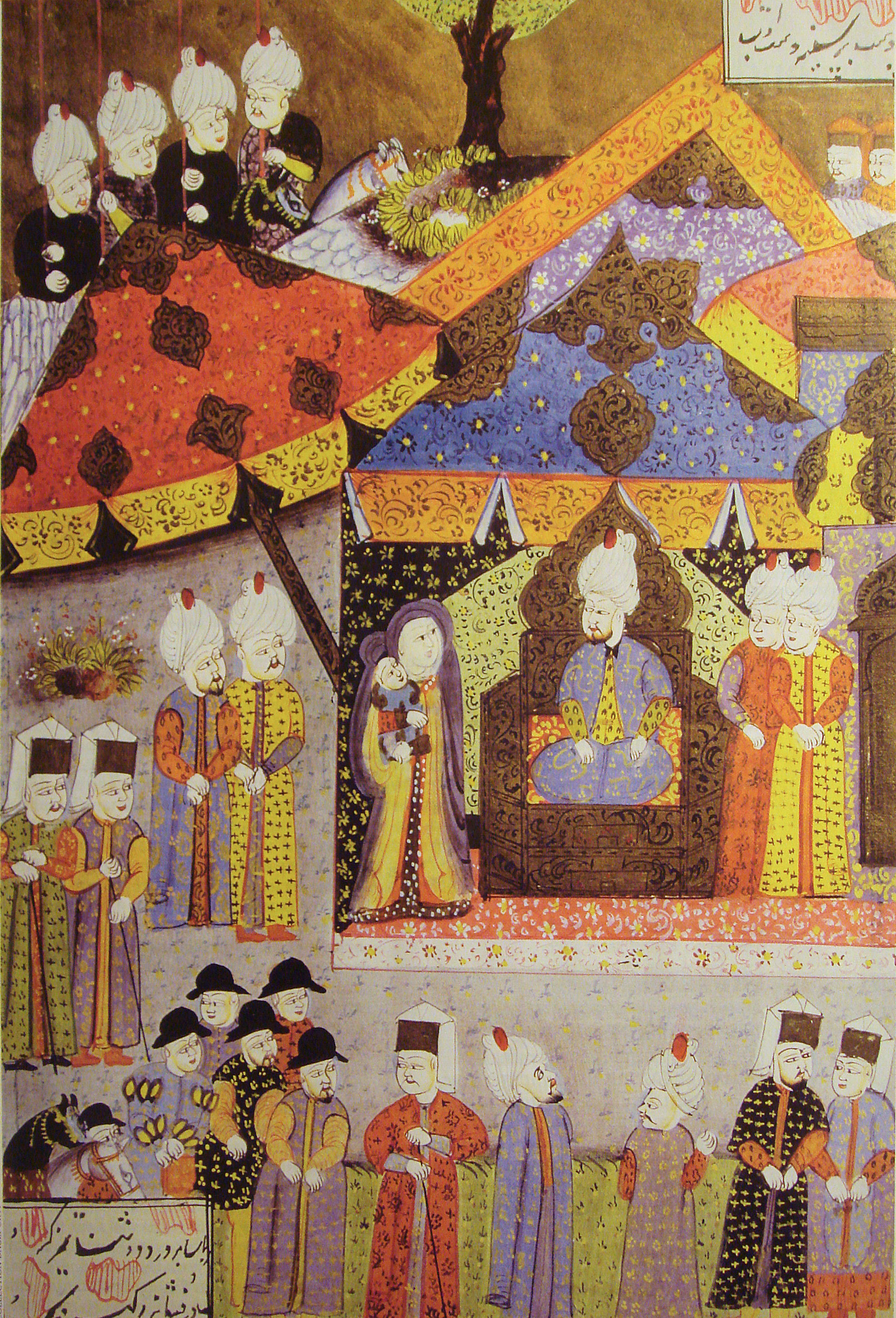 Suleiman I (the Great) receiving dowager queen Isabella Jagiellon and her infant son John Sigismund, King of Hungary, in 1541.